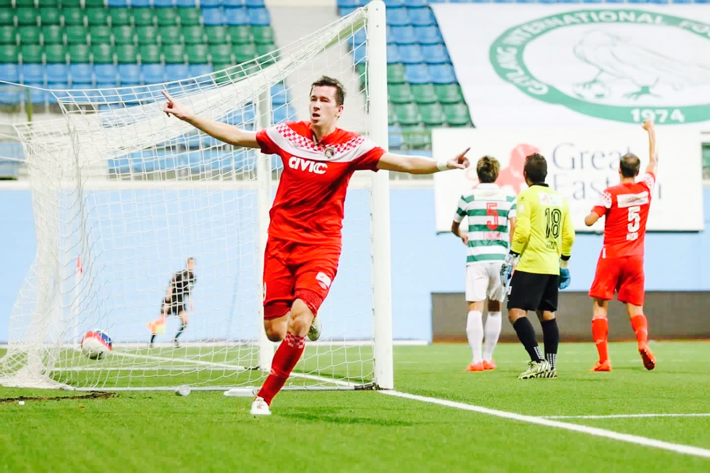 2nd goal of the game